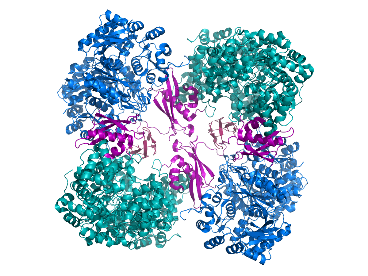 a picture of pyruvate carboxylase enzyme from R. etli